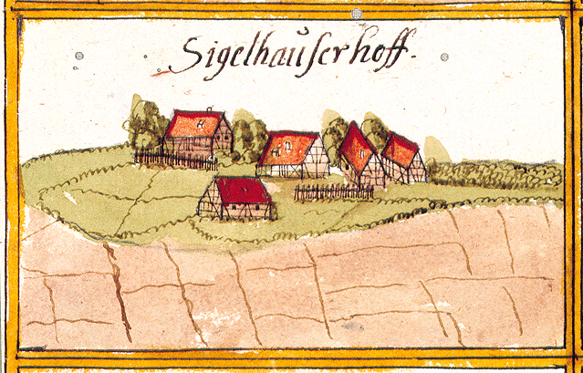 View of Siegelhausen, Marbach am Neckar, from the forest register books created by Andreas Kieser